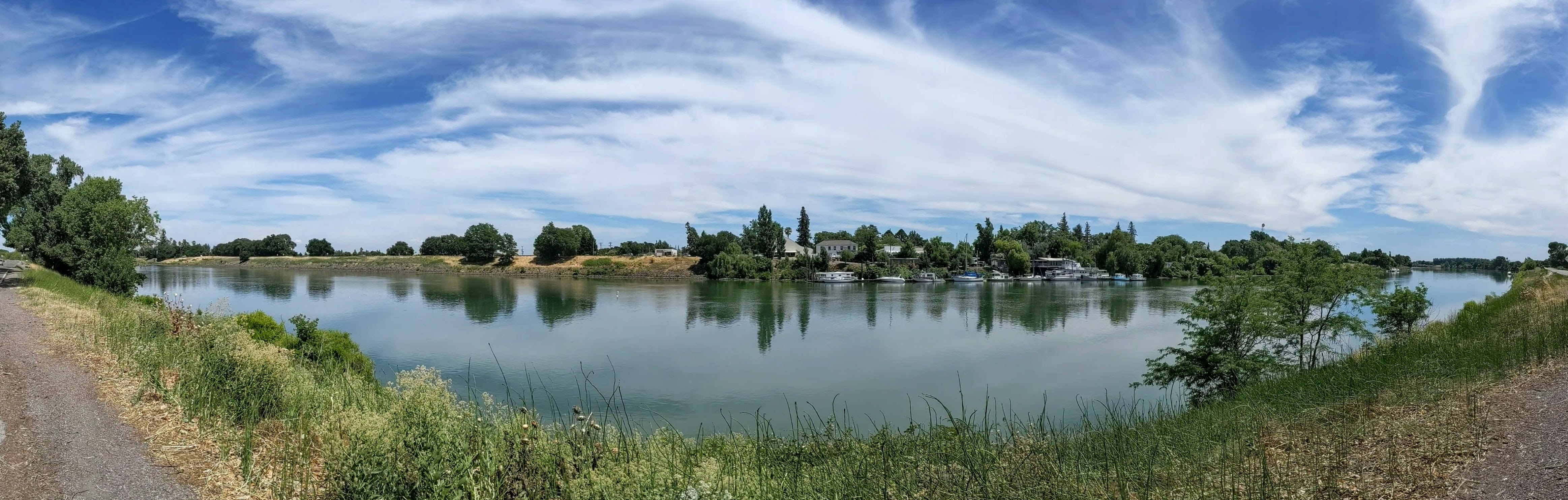 Panoramic view of Courtland, California, from across the Sacramento River